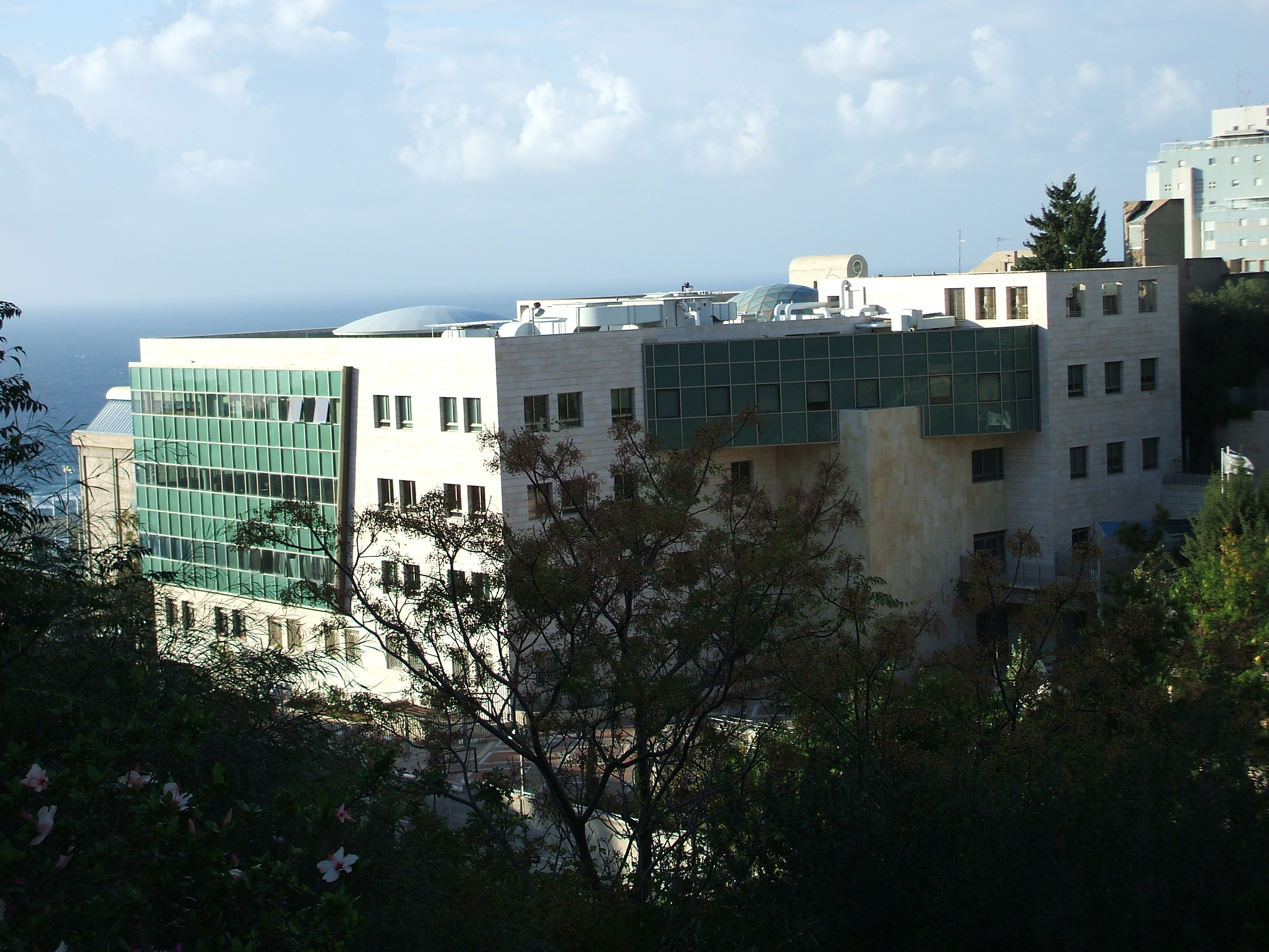 Leo Baeck Education Center, Haifa, Israel